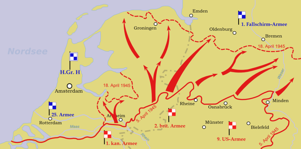 German Map showing the advance of the British-Canadian forces in the Netherlands and in Northwestern Germany in April 1945.